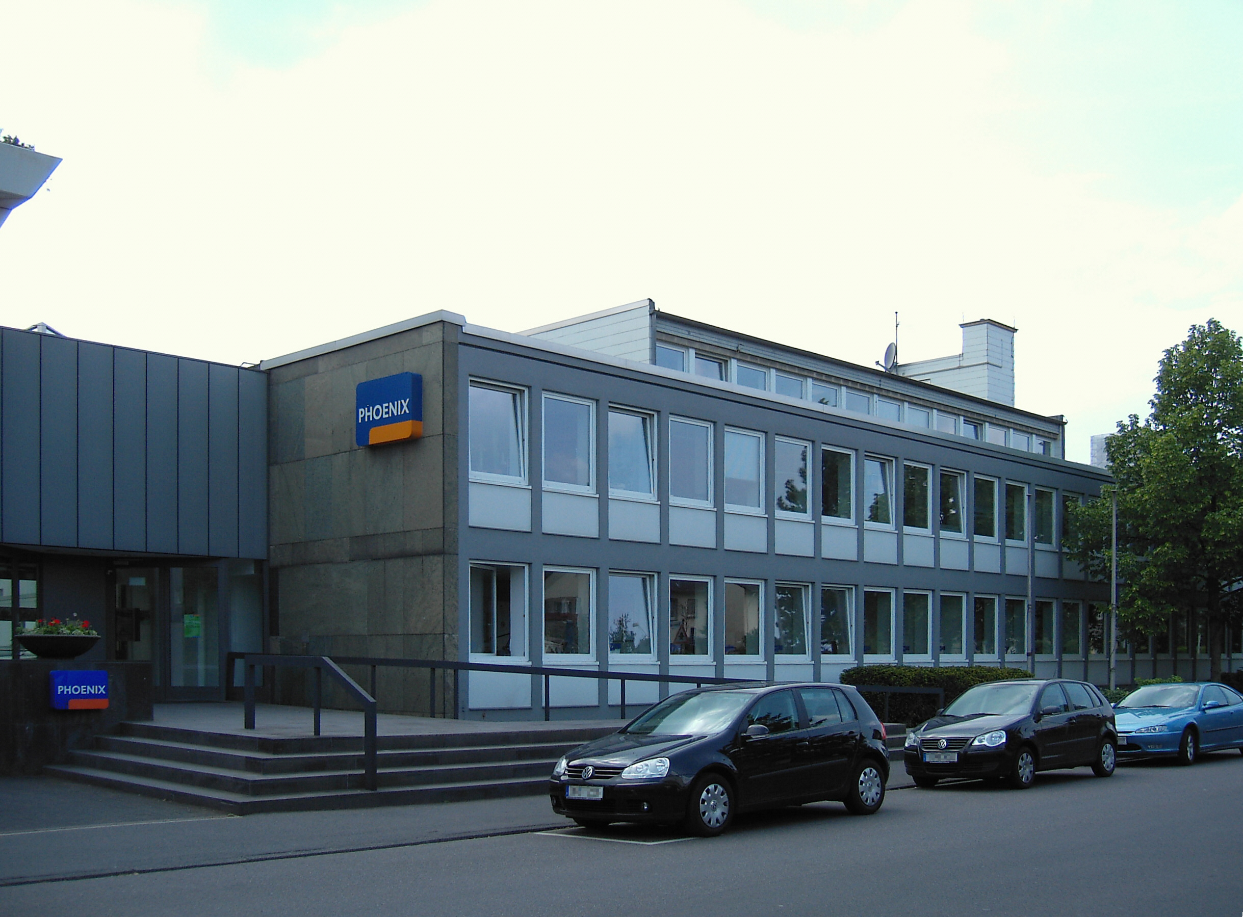 Studio and adminstration of the television channel PHOENIX and studio of the West German Broadcasting Company (WDR) in the Federal Quarter in Bonn.